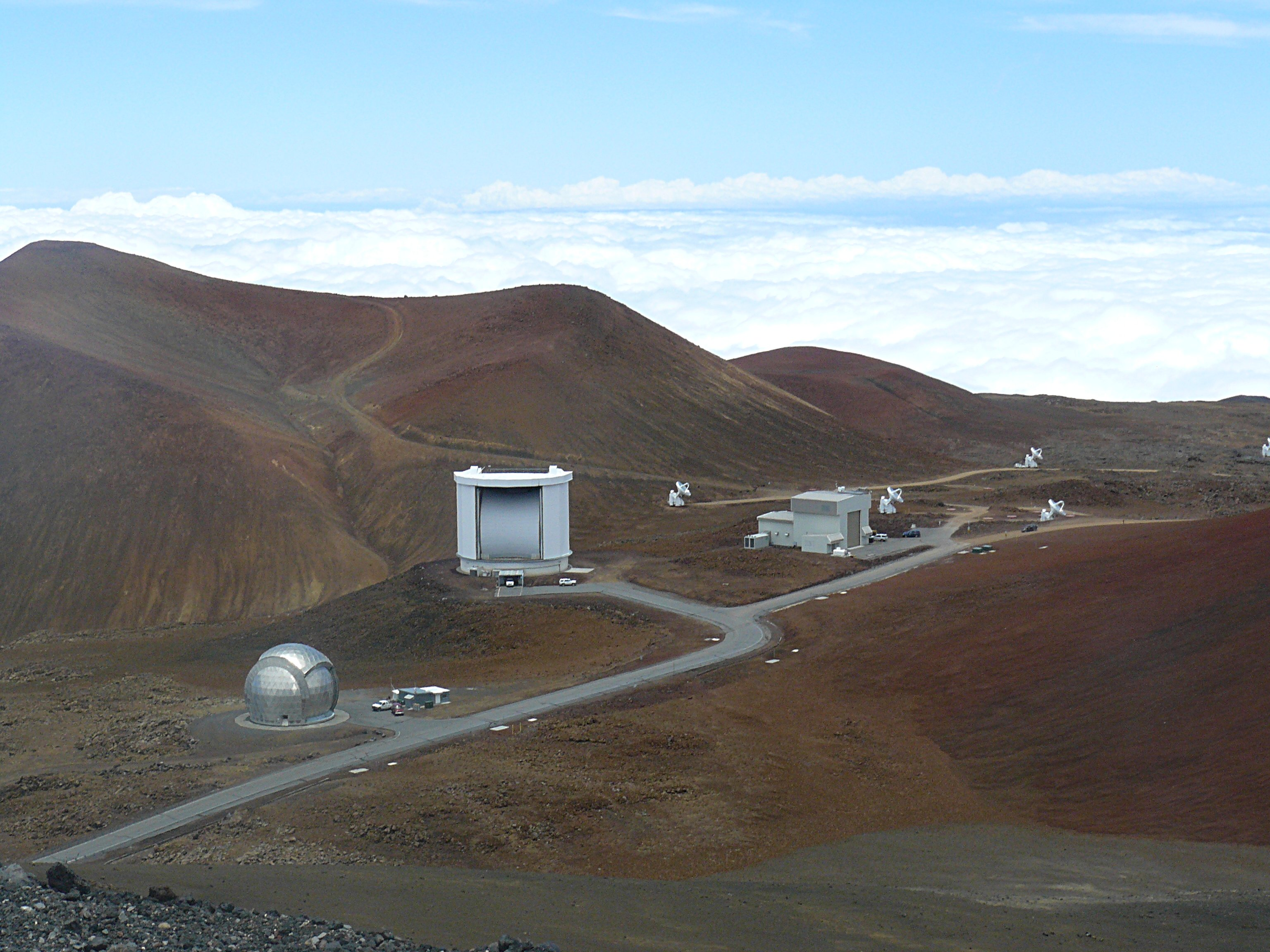 At the foot of Puʻu Poliʻahu, one of the craters of Mauna Kea. From left to right: the Caltech Submillimeter Observatory, James Clerk Maxwell Telescope, and four of the Submillimeter Array receivers.